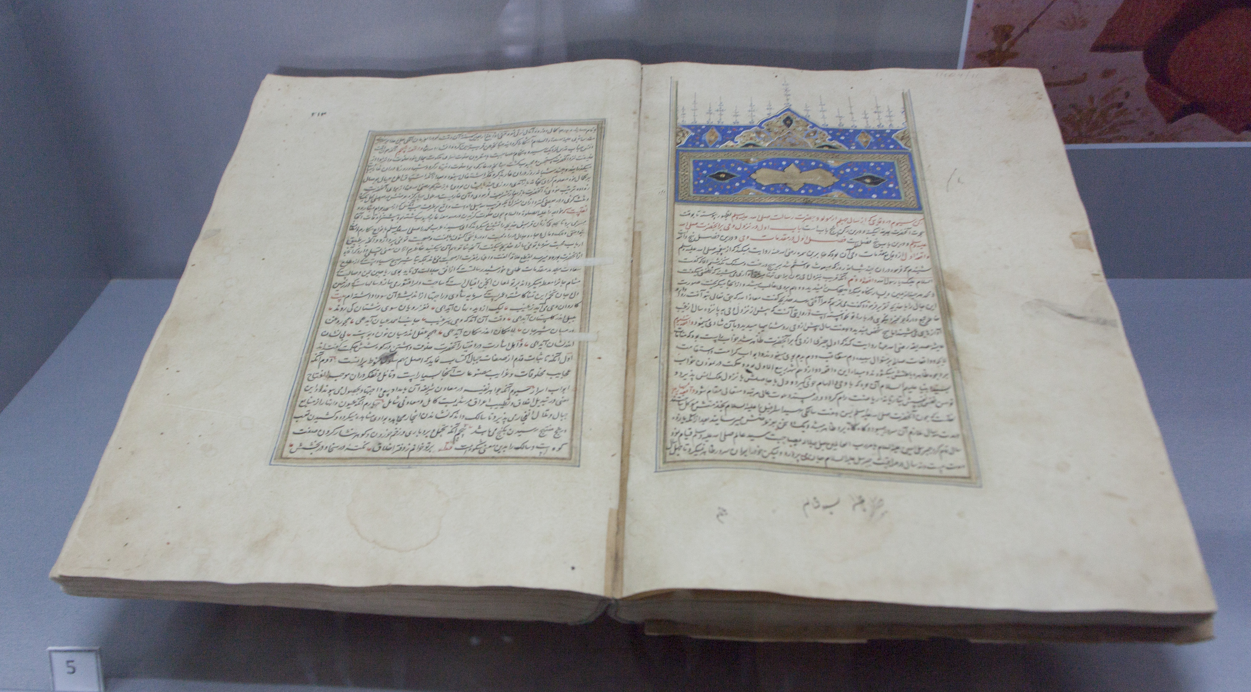 Bukhara 1610